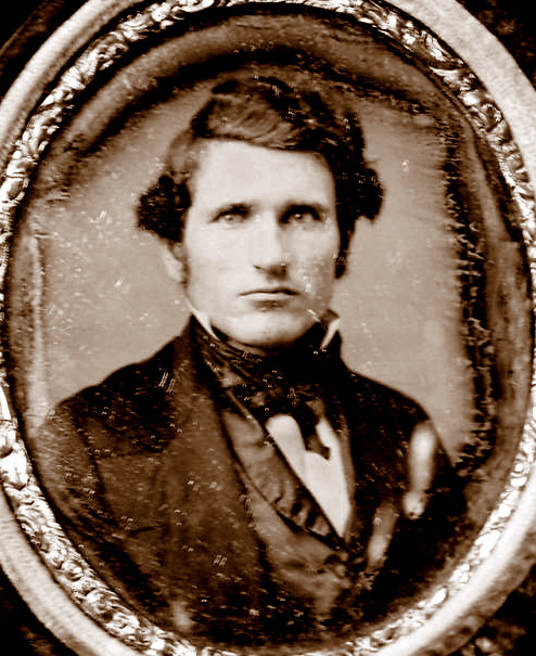 Lafayette Curry Baker